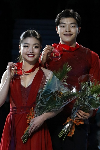 Maia Shibutani and Alex Shibutani at the Sкate America 2017